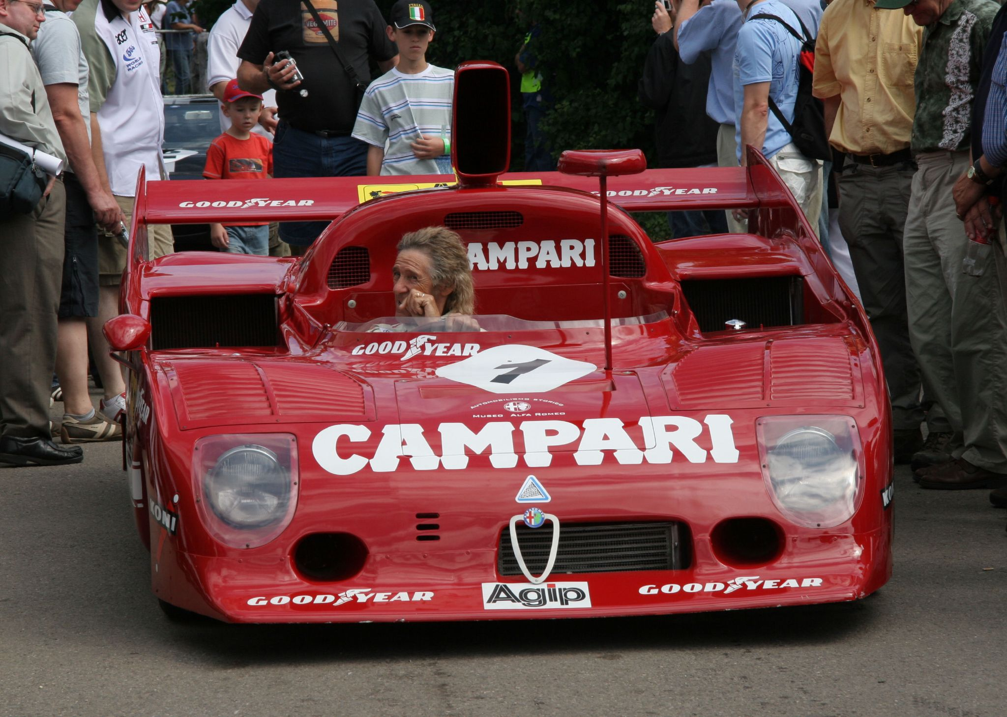 Goodwood Festival of Speed of 7-9 July 2006. Arturo Merzario the wheel of Alfa Romeo 33 TT 12 Champion of the World Sports Prototype in 1975, granted by the Museo Storico Alfa Romeo in Arese1975 Alfa Romeo T33 at the 2006 Goodwood Festival of Speed